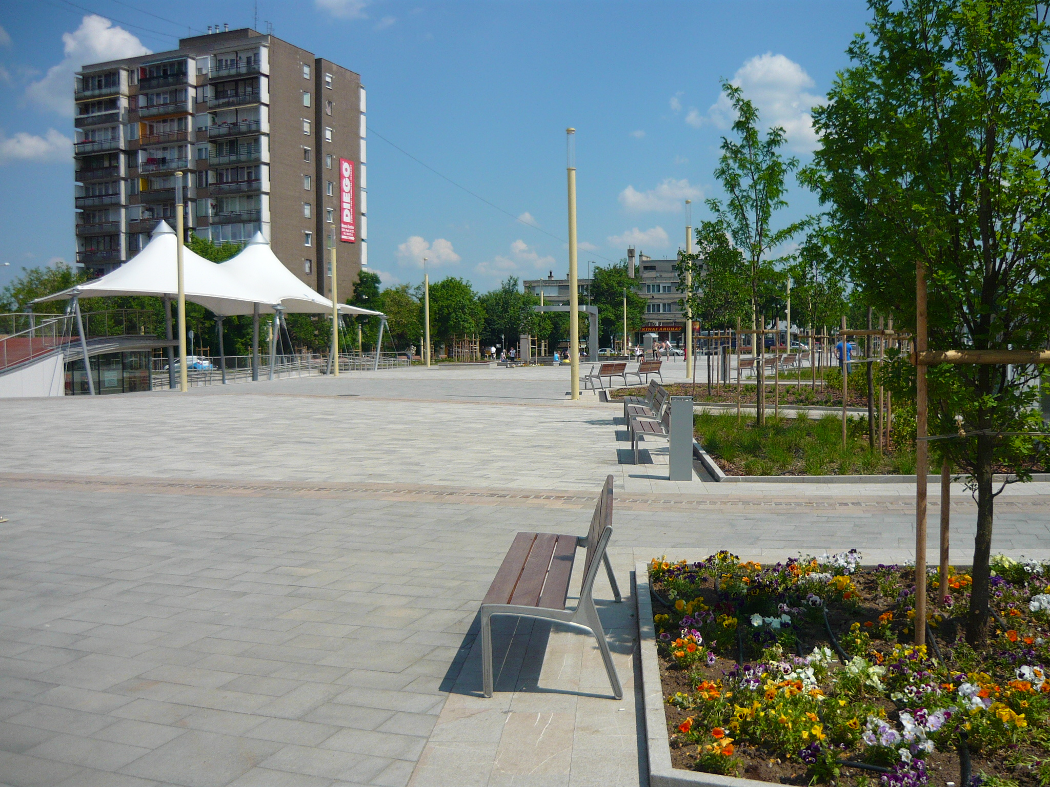 The new main square at Rákoskeresztúr, Budapest